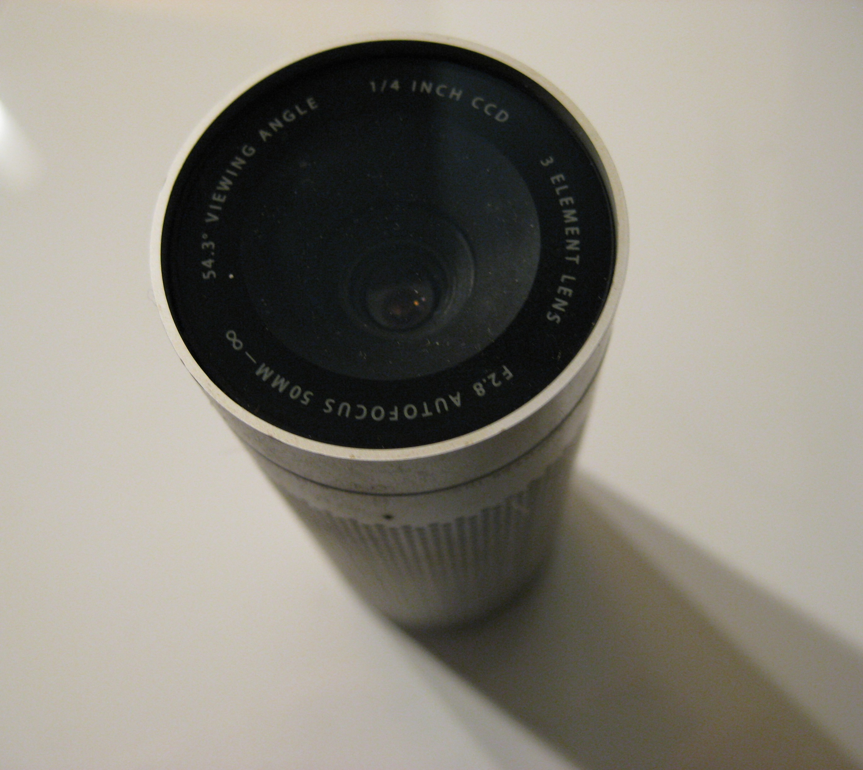 Apple FireWire webcam